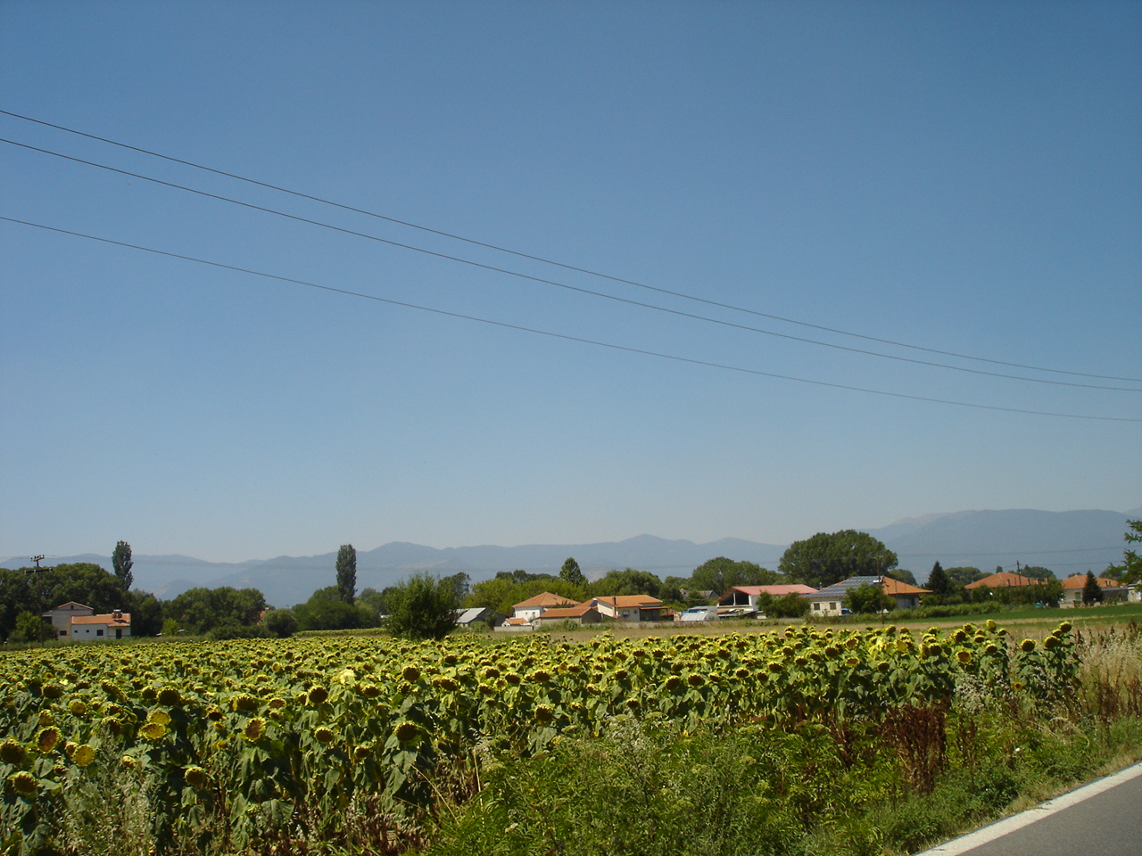 Rosen (Sitaria) village, near Lerin in Aegean Macedonia, Florina Prefecture, Greece